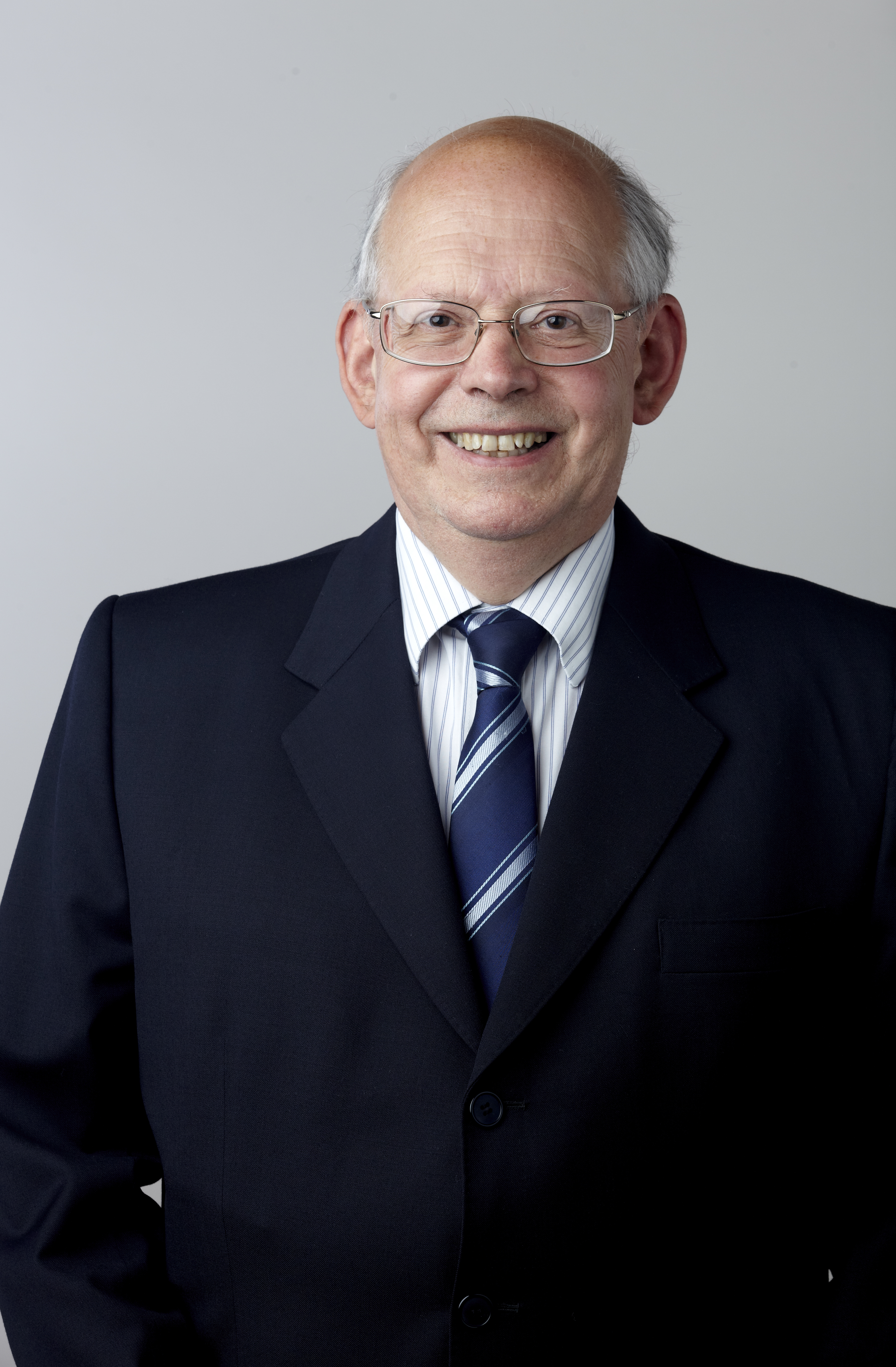 Professor Richard Hills FRS, Royal Society Fellow elected 2014 Attribution: The Royal Society